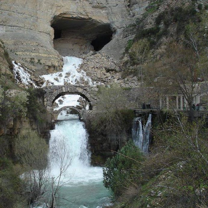 grotte d'afqa 2015 a l' hiver